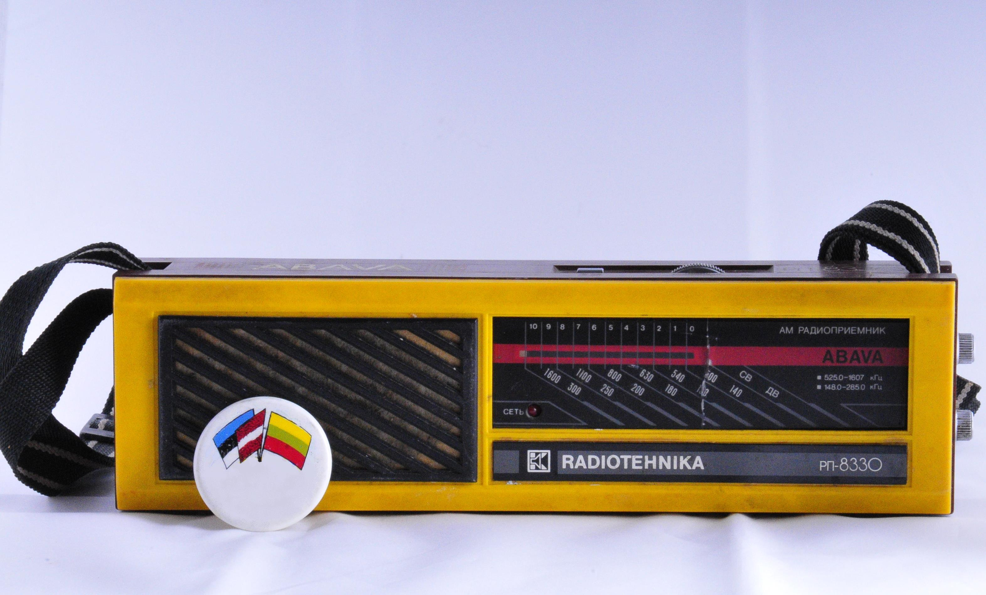 During the Baltic Way on August 23, 1989 - where people throughout the Baltic states joined hands as a demonstration for independence from the Soviet Union - people carried with them portable radios such as the one pictures here to be able to tell the exact time when to form the human chain from Tallinn through Riga to Vilnius, that showed the unity of these three states in their quest for independce. Portable radios were also important for people to always stay updated about the quickly changing situation during the struggle for independence. Digitized during the Europeana 1989 Collection days in Warsaw, Poland. Brought by Sarmīte Ēlerte.Radio on photo: portable AM receiver Abava RP-8330, produced by RRR Radiotehnika, Riga This is a retouched picture, which means that it has been digitally altered from its original version. Modifications: see #filehistory.